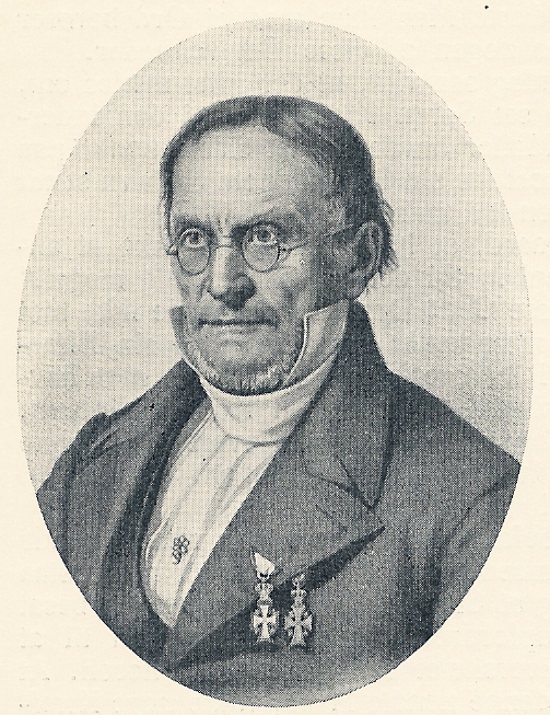 Frederik Christian Sibbern. Litografi af Johannes Jensen.